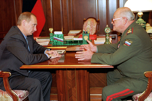 THE KREMLIN, MOSCOW. With Minister of Defence Igor Sergeev.